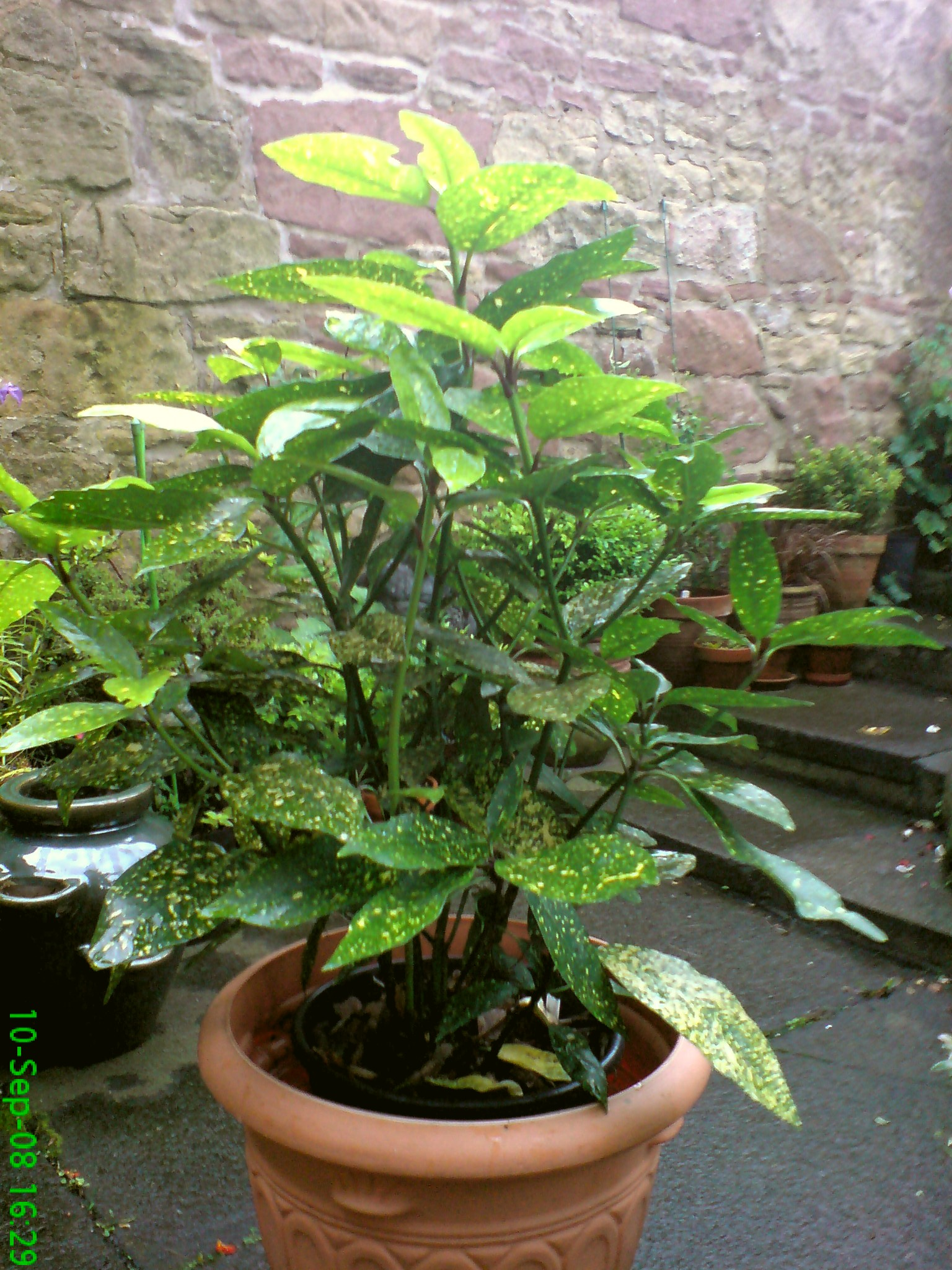 Spotted Laurel Male